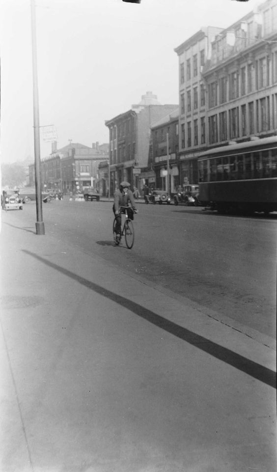 View of the Saint-Jacques Street in Montreal. We see a man riding a bicycle, tram, car and office buildings.